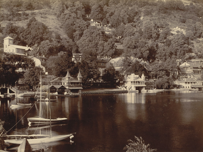 Boathouses by the lake, Nainital, 1899. (Still extant as of 2009) These were recent additions as they are not seen in earlier photographs of 1880s, also the scene at the Mall road behind them is also taking shape. Details at British Library page